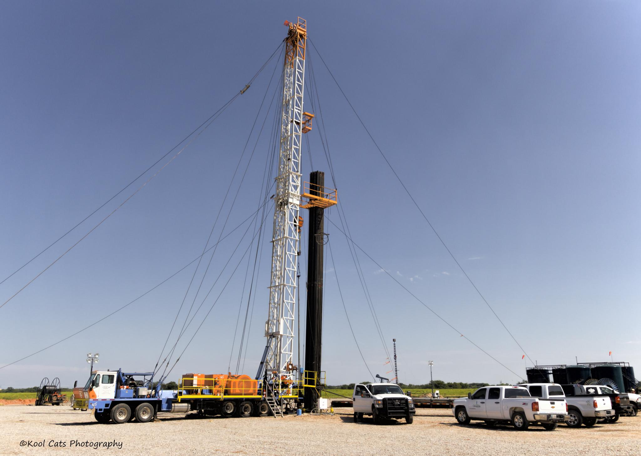 Oil drilling rig in Edmond, Oklahoma